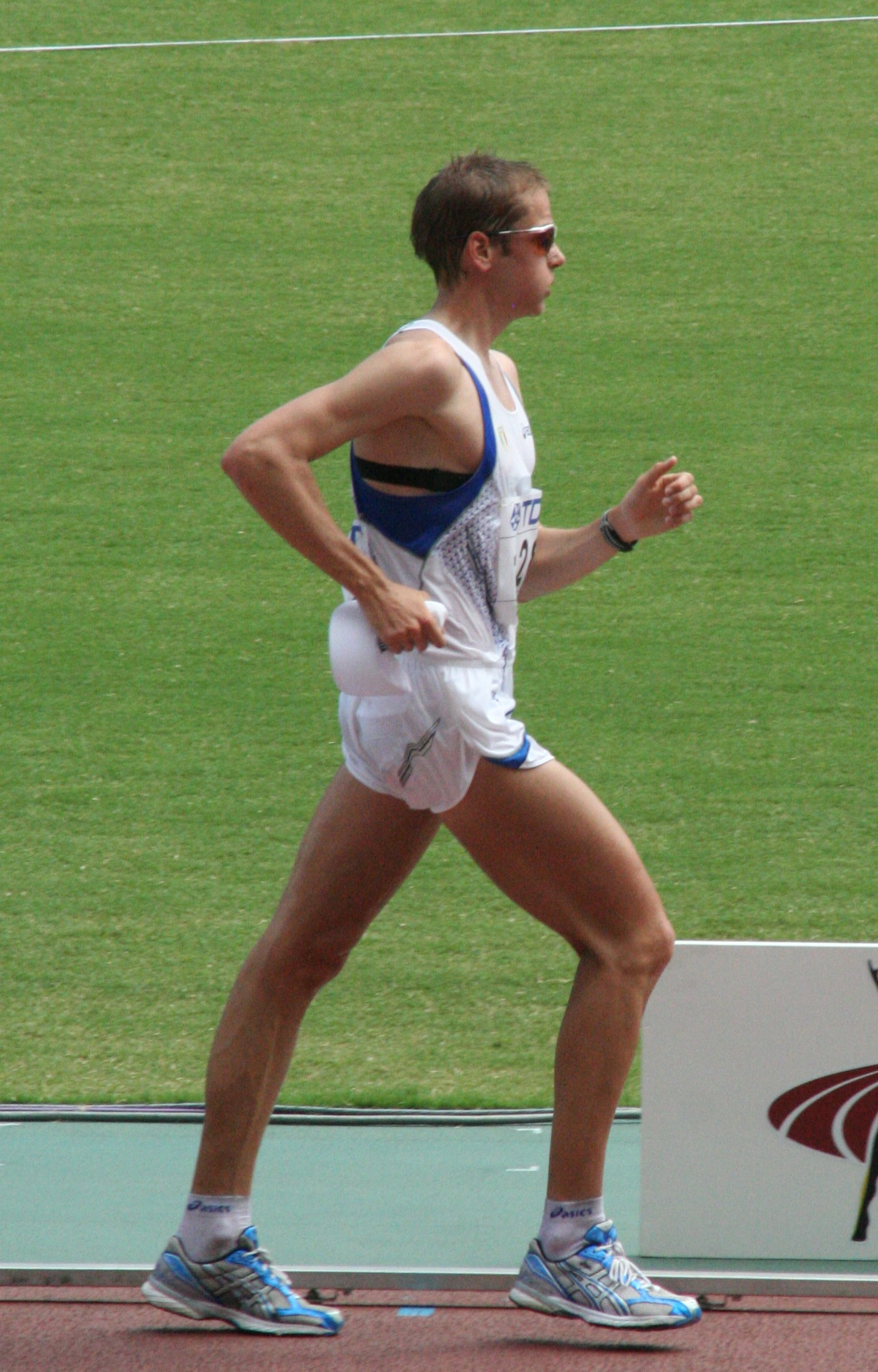 World Athletics Championships 2007 in Osaka - Bronze medal winner Alex Schwazer (Italy) near the finishing line of the men*s 50 km race walk